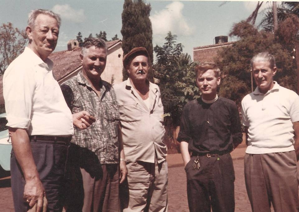 Immigrants in Misiones province (Argentina) of Norwegian and Swedish origin. From left to the right : three norwegian pioneers and important personalities in Misiones province: Henry Oliver Kleiven, Olaf Srtom, Odd Bothner, and the swedes: writer and priest Sven Flodell and sportistman Ian Barney